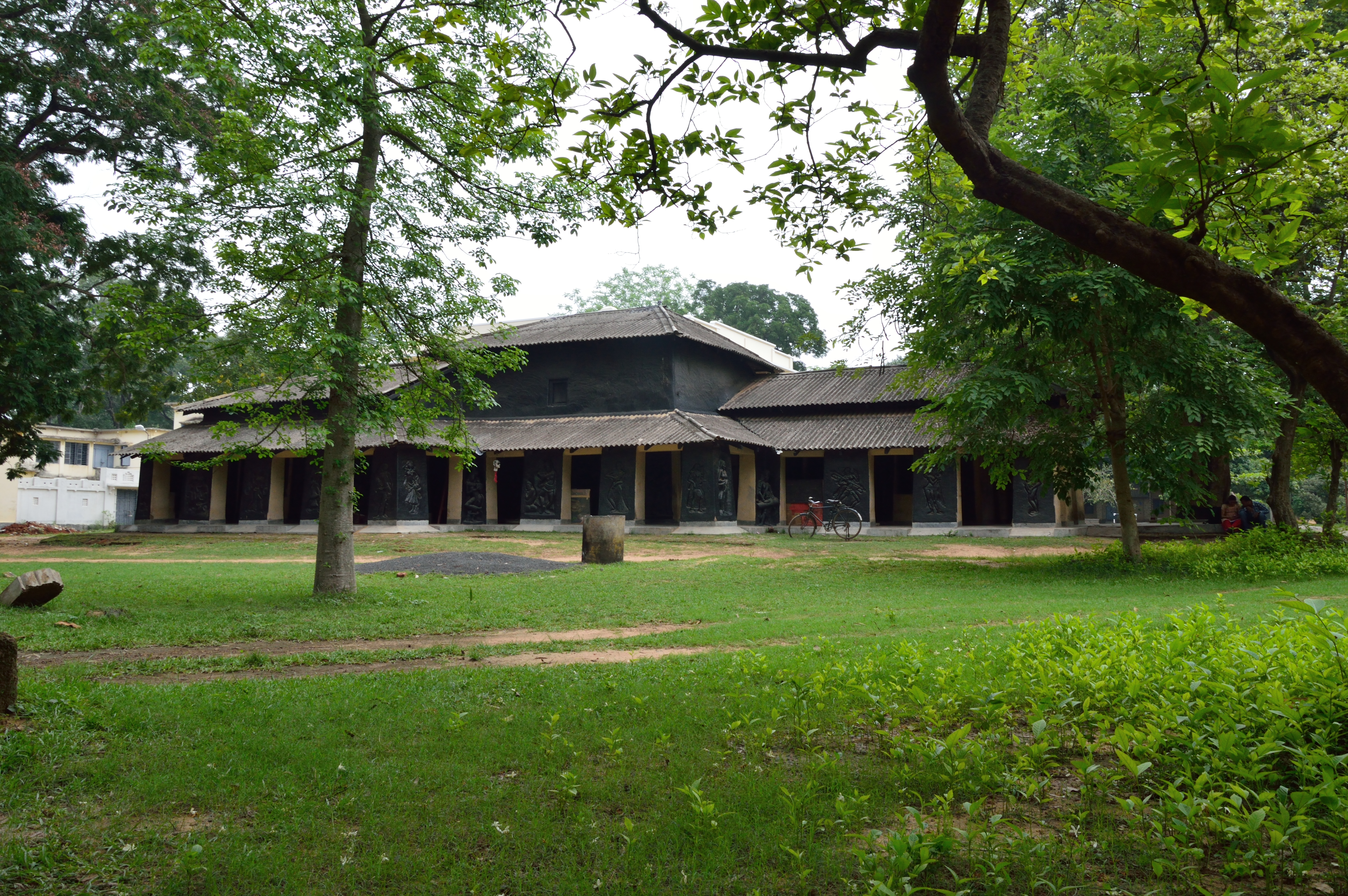 Kalo Bari (Black House) is a unique structure made of mud and coal-tar. Built as a hostel for senior Kala-Bhavana students, its walls and pillars have been decorated with relief work and is the handiwork of art-students over many years. Begun by Nandalal Bose in 1934, there are examples of Ramkinkar's works on the northern walls.